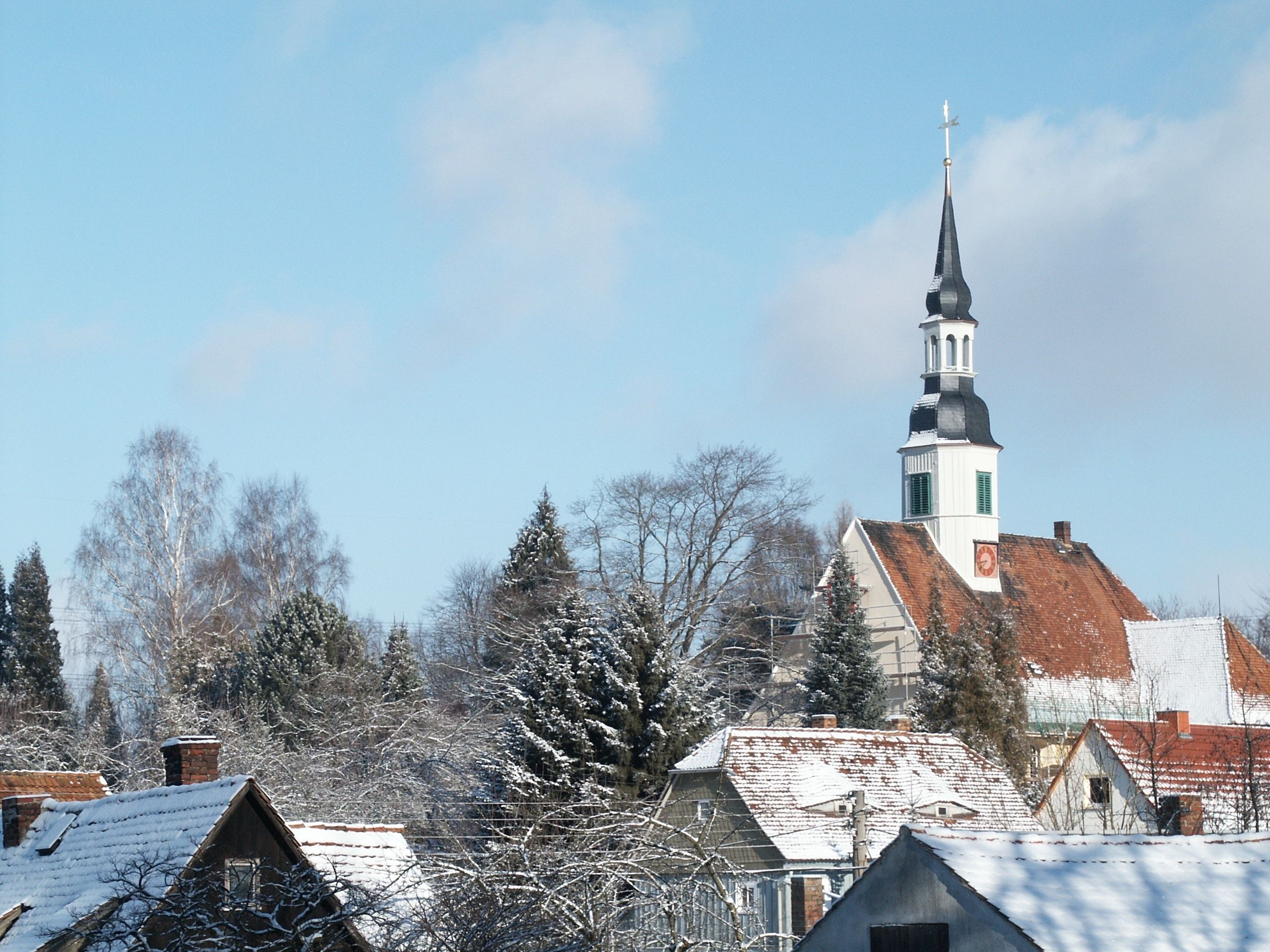 Berthelsdorf